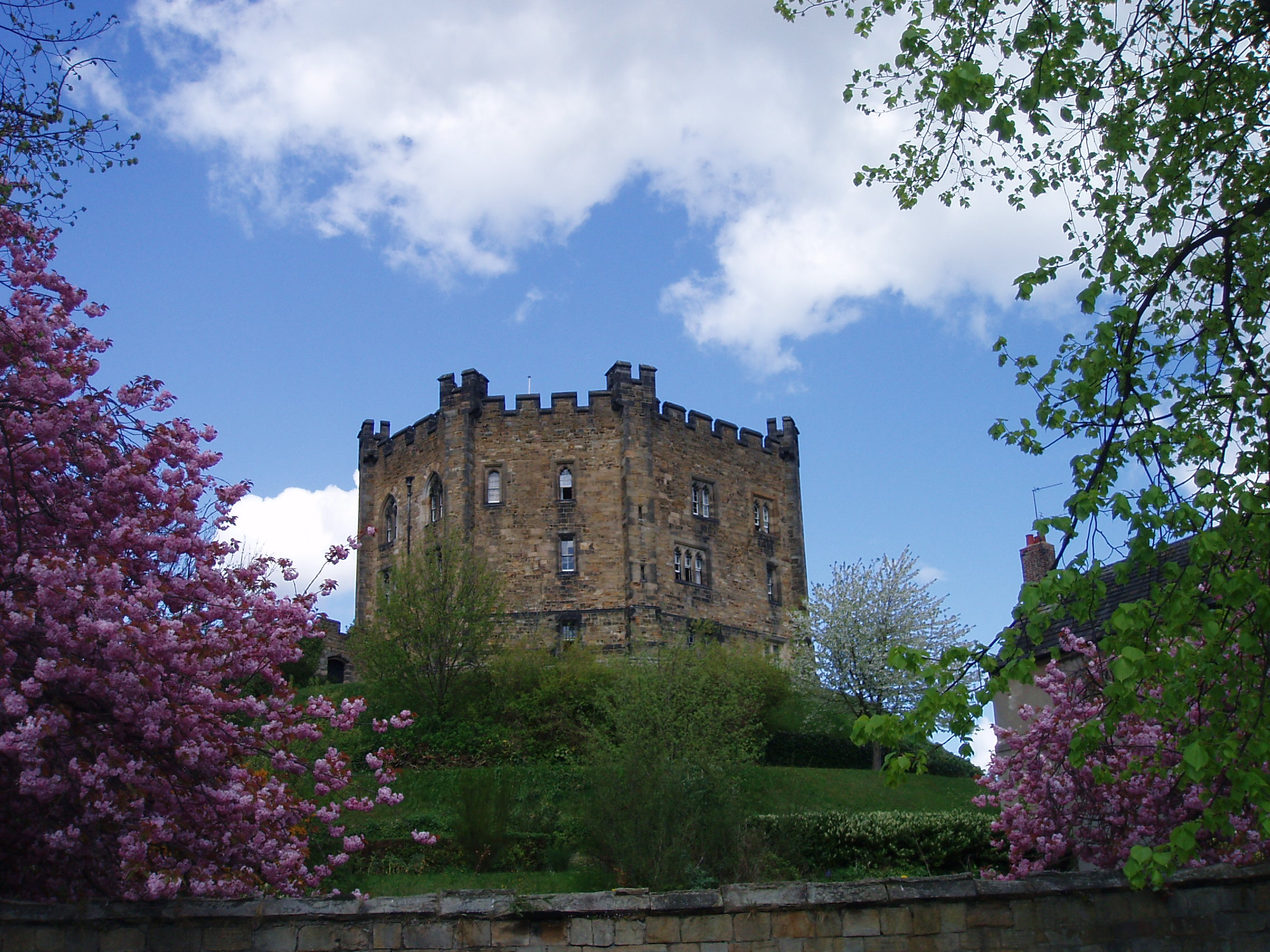 Durham Castle keep. Photographed in April.